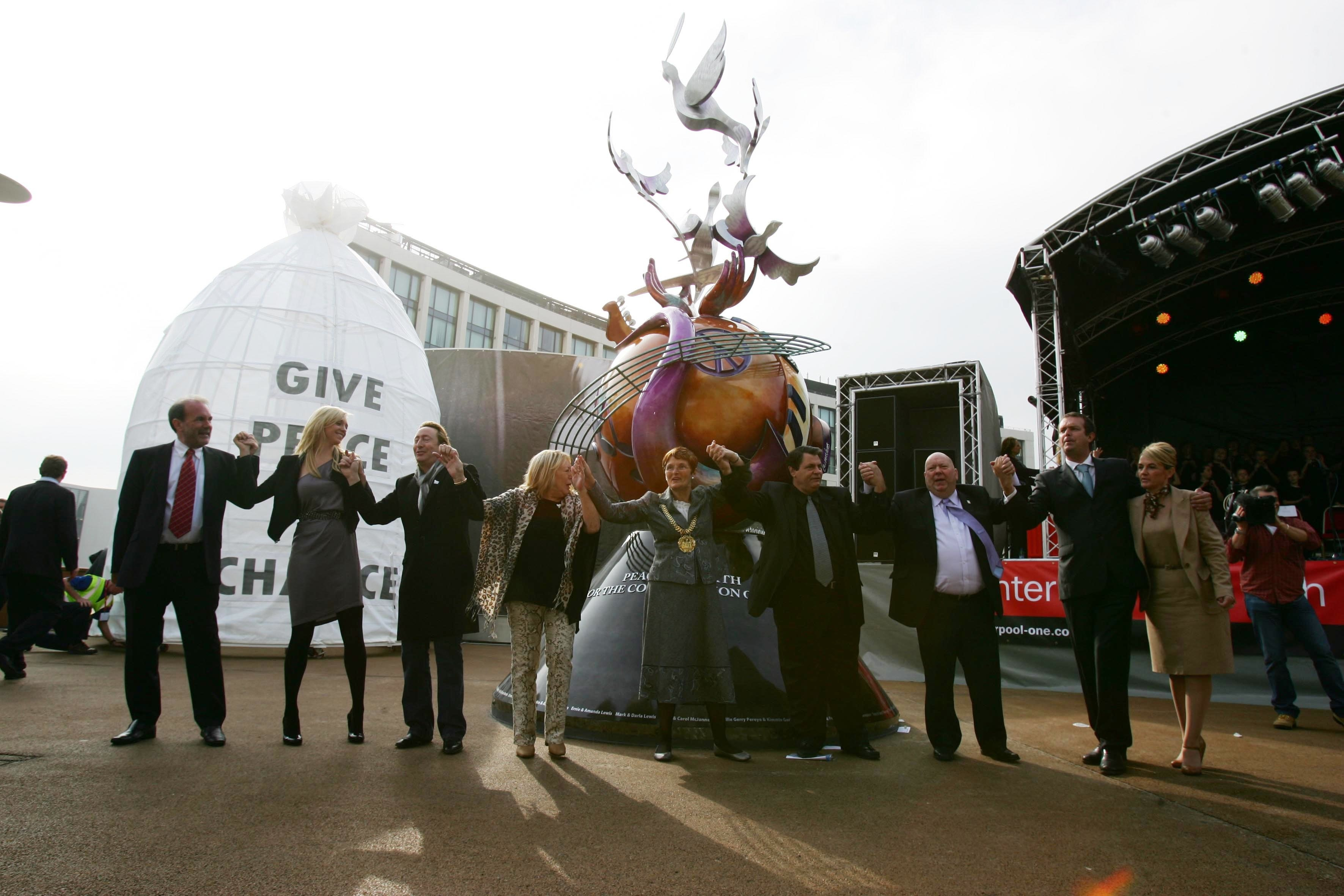 Celebrating the unveiling of the John Lennon Peace Monument in Liverpool on 9th October 2010.